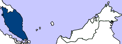 Federation of malaya. historical map